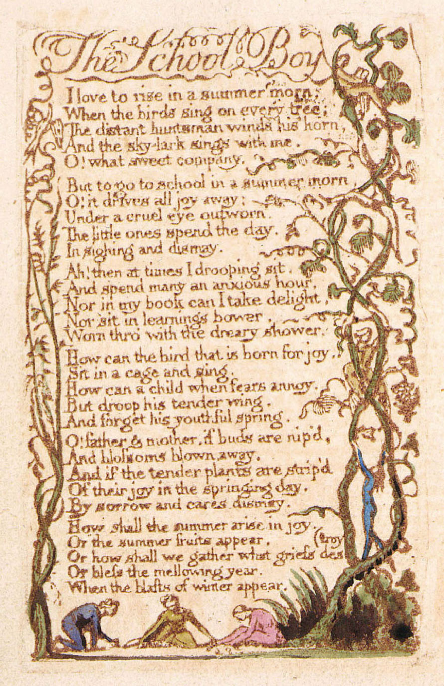 Songs of Innocence, copy B, 1789 (Library of Congress) object 7-53 The School Boy